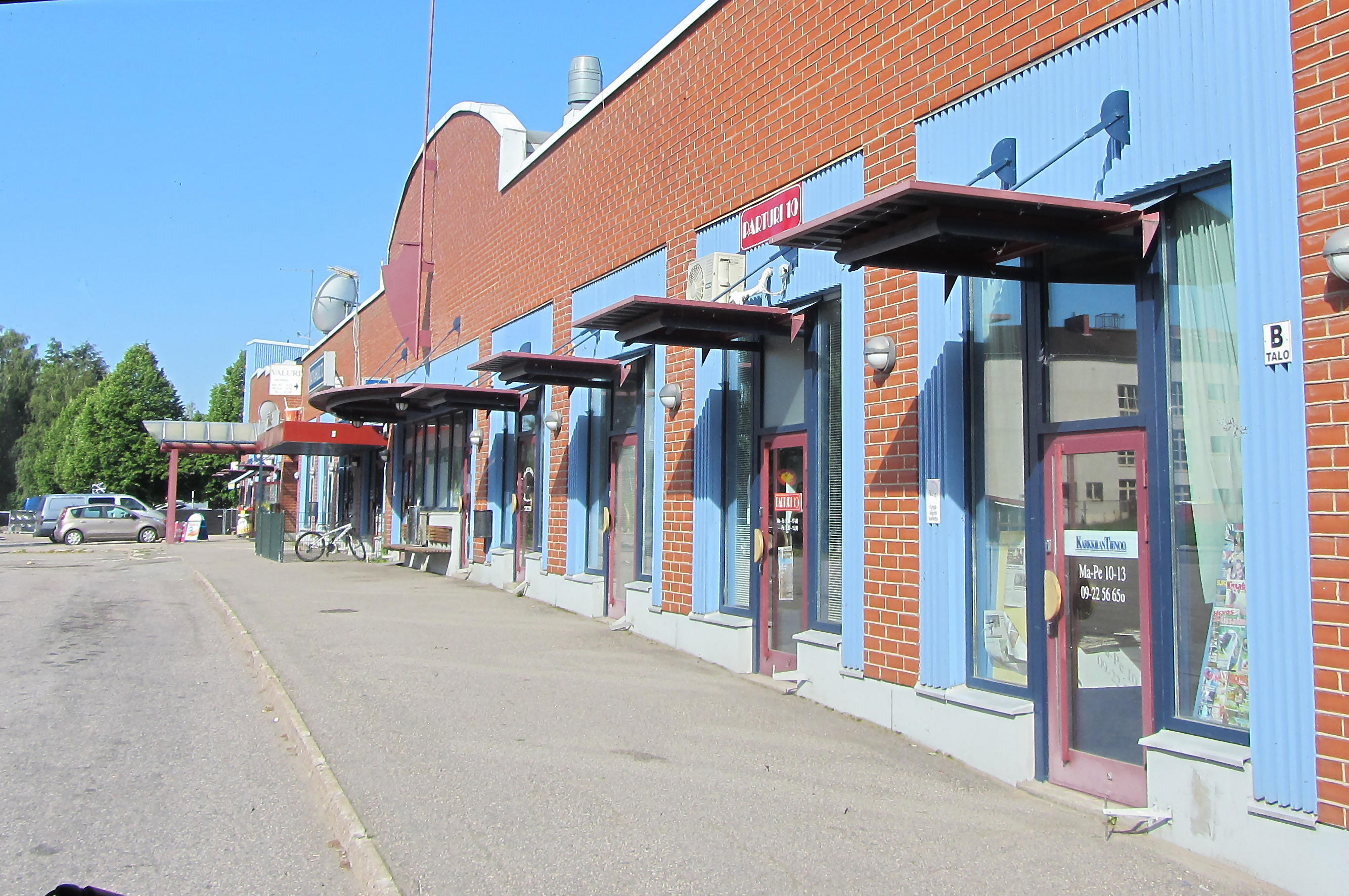 Karkkila Buss Station